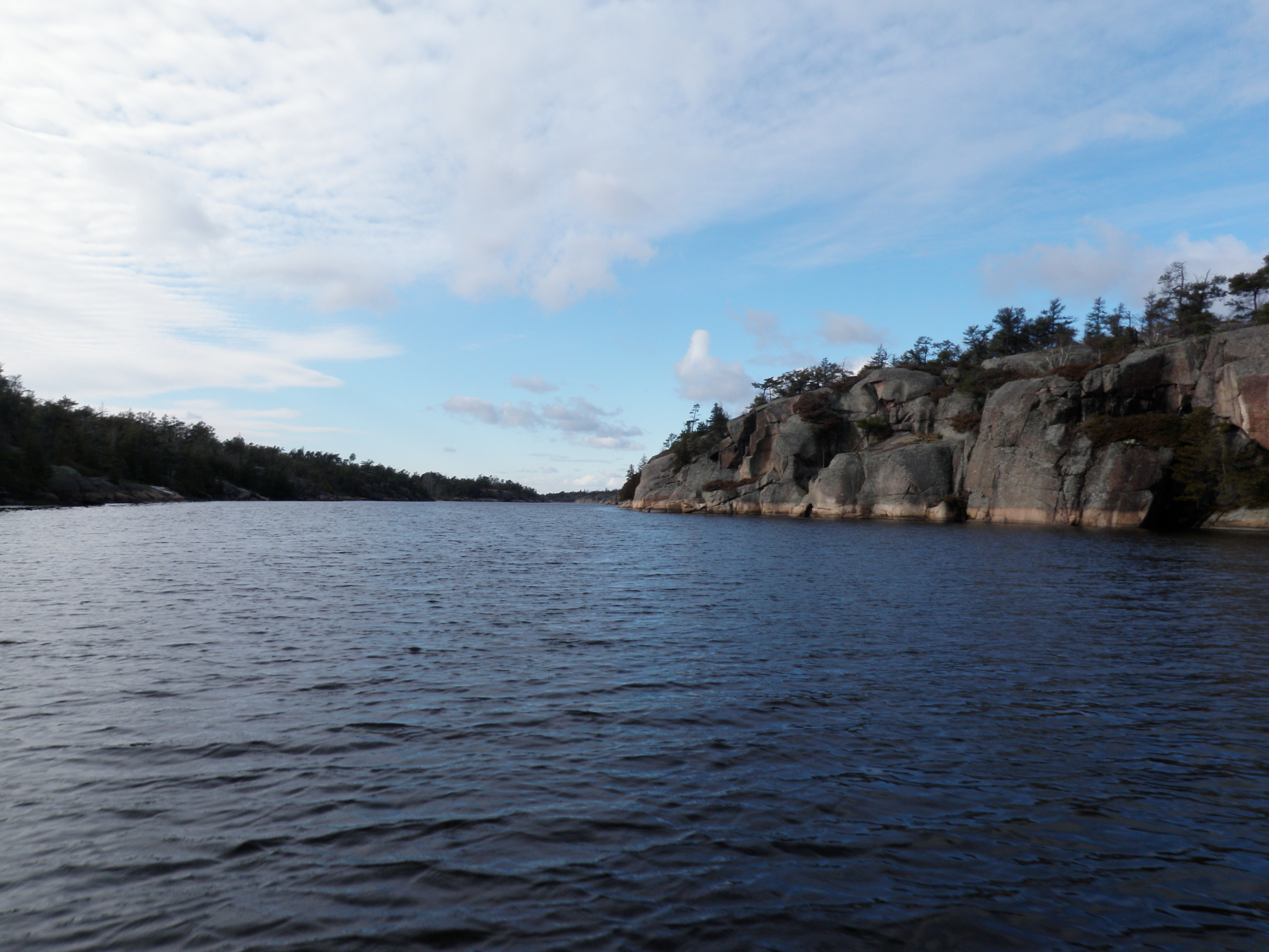 Key River